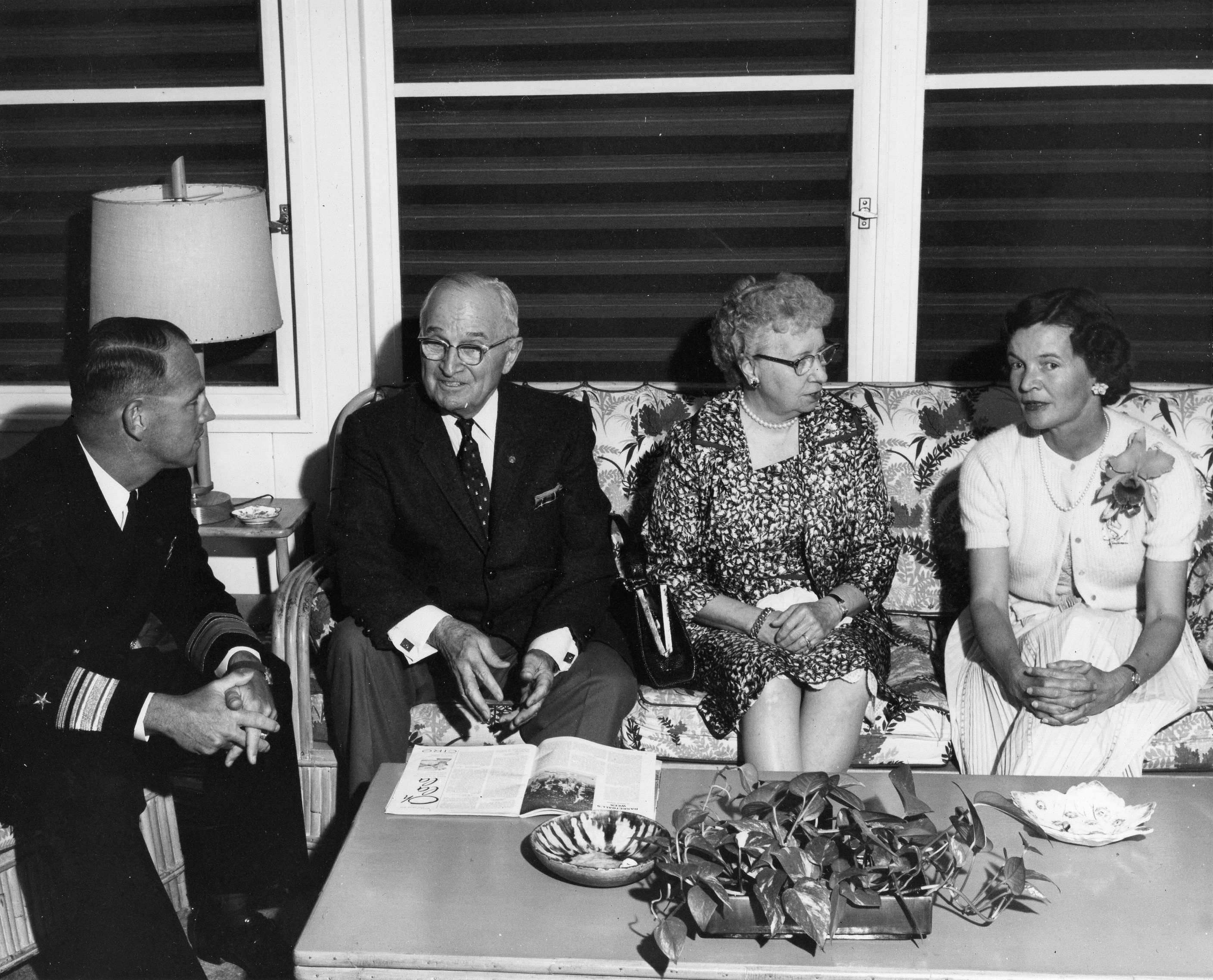 Gathering at the Little White House in Key West